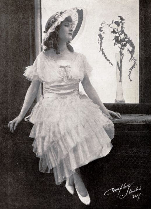 Actress Jean Sothern (misspelled in the caption as Jean Southern), on page 412 of the October 1916 Cine-Mundial (American Spanish language magazine).